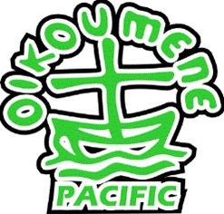 logo of the Pacific Conference of Churches